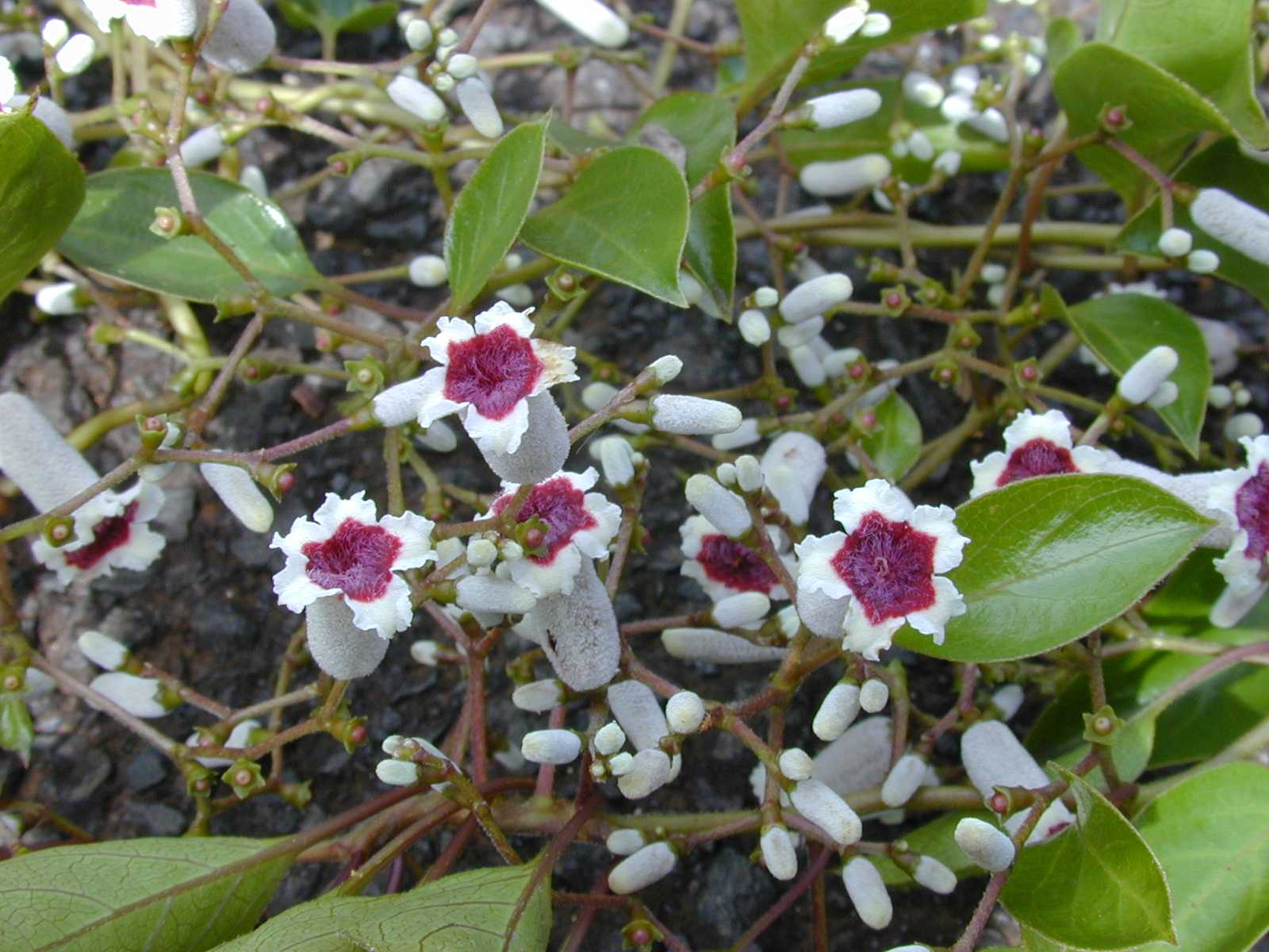 Paederia foetida (flowers and leaves). Location: Maui, Makawao